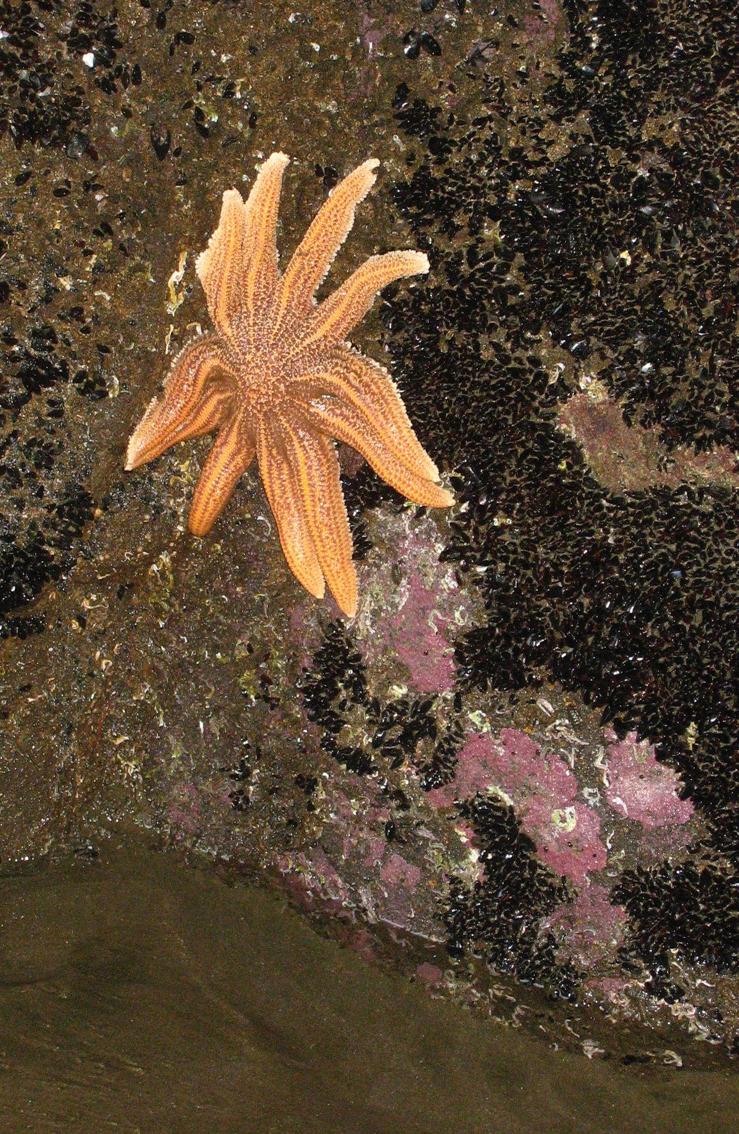 The 11-armed reef starfish (Stichaster australis), at Muriwai, near Auckland, New Zealand. Worm casts and little black mussels can also be seen on the rocks.